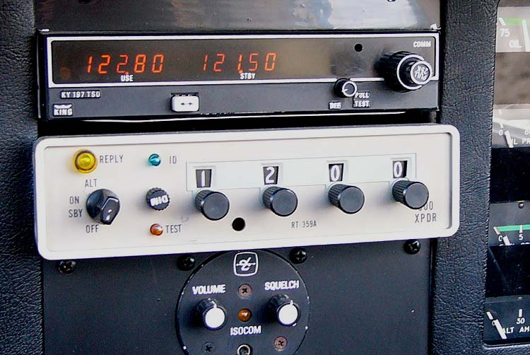 Cessna ARC RT-359A transponder and Bendix/King KY197 VHF communication radio mounted in the instrument panel of a 1970 model American Aviation AA-1 Yankee aircraft.